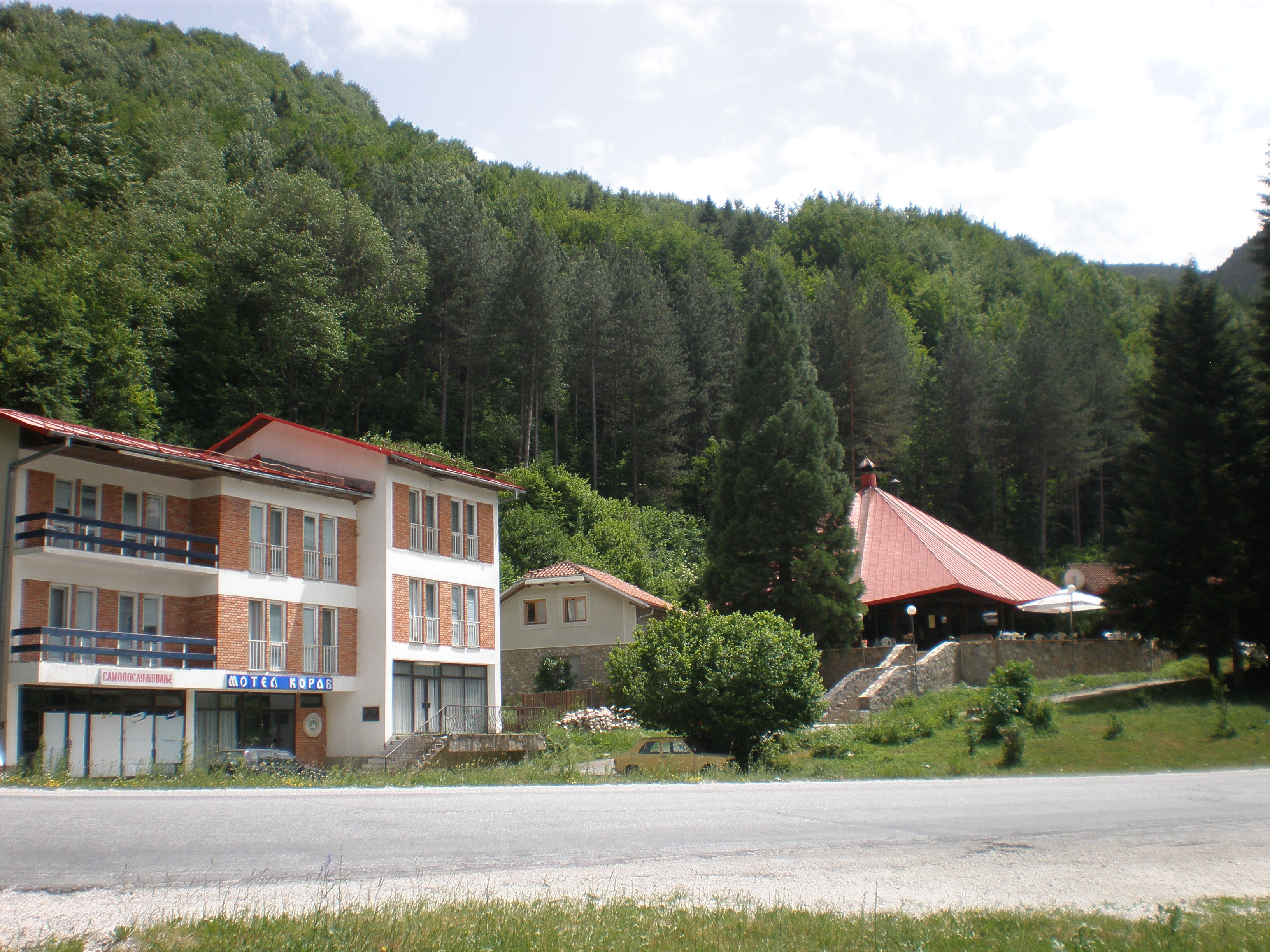 Trnica, Macedonia